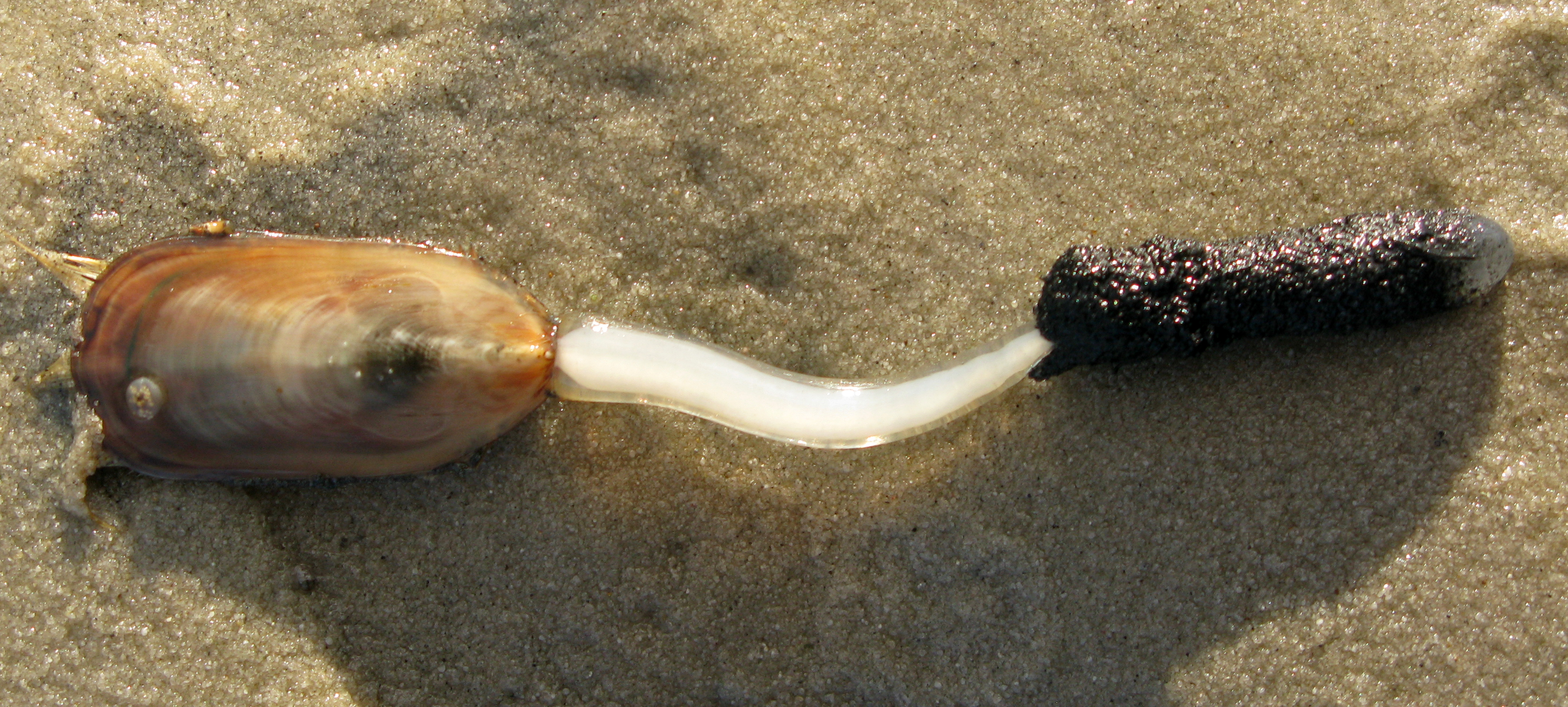 Lingula anatina from Stradbroke Island, Australia, January 2008.